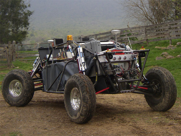 Image was taken by me. Anyone can use it for any purpose.